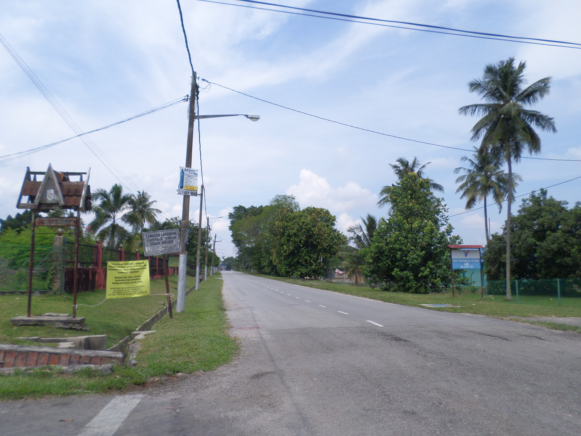 Labu, Seremban, Negeri Sembilan, MalaysiaBahasa Melayu: Labu, Seremban, Negeri Sembilan, Malaysia